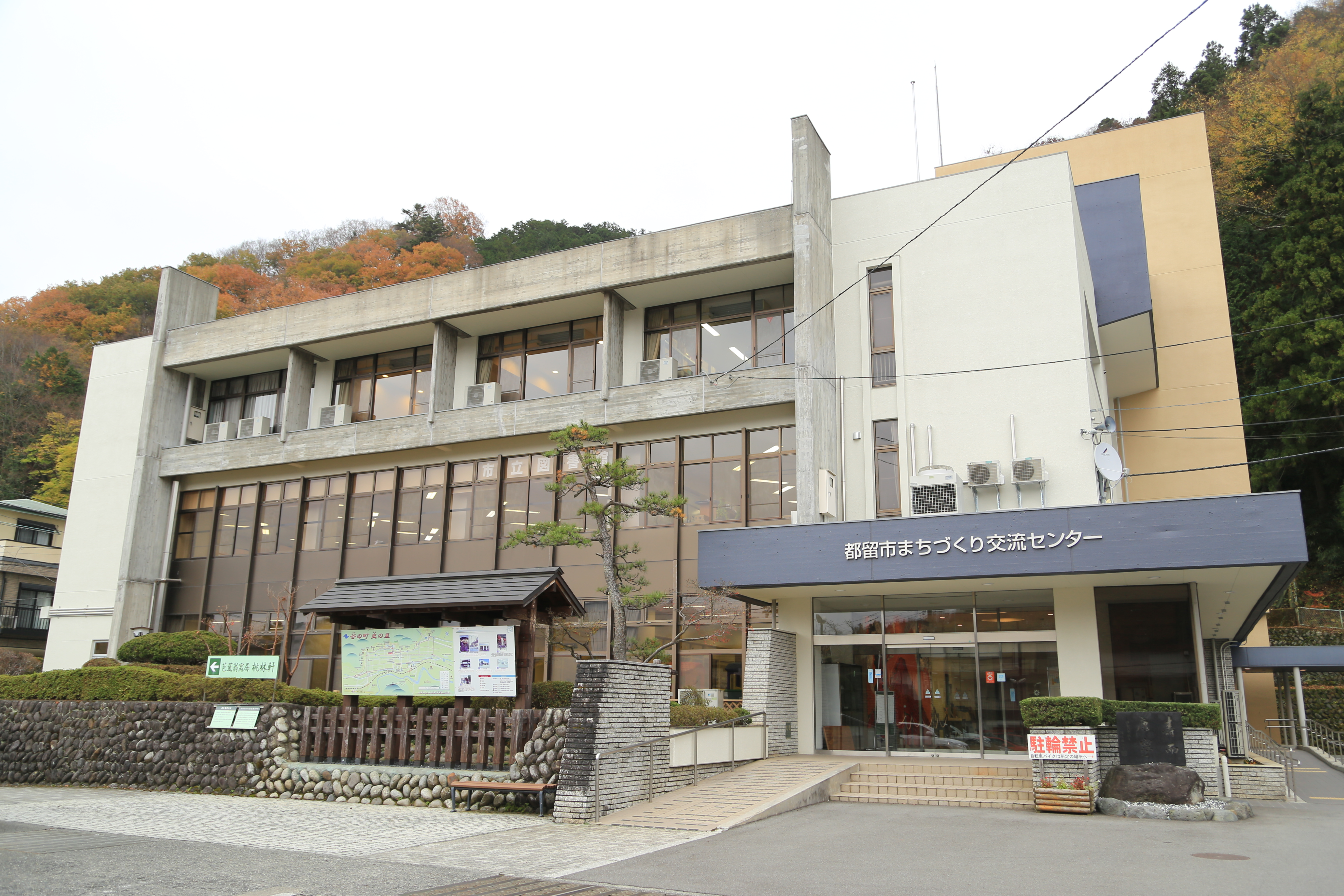 Center of town planning and Interaction(with city library), Tsuru, Yamanashi, Japan